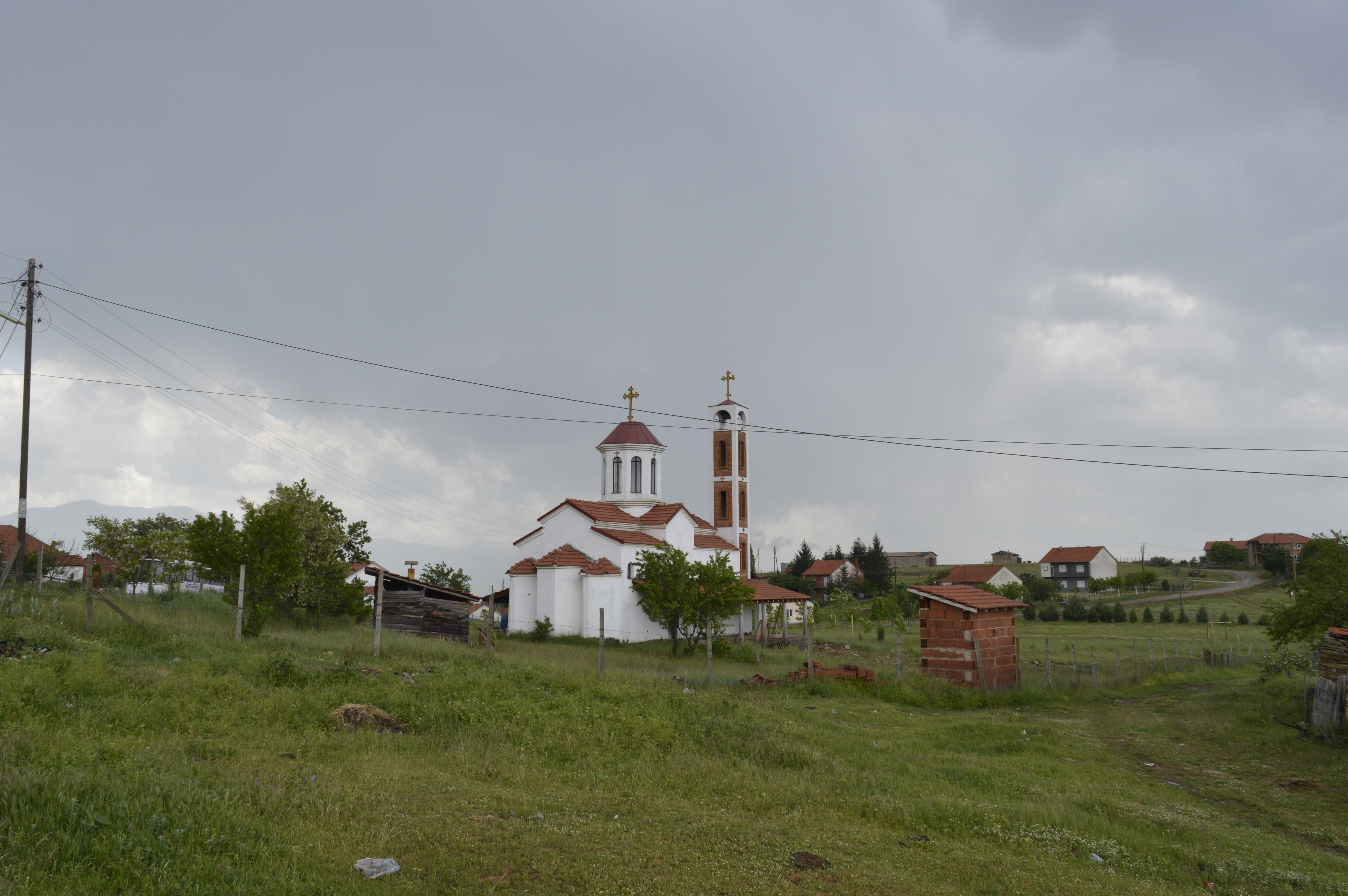 View of the Holy Trinity Church in the village Trsino